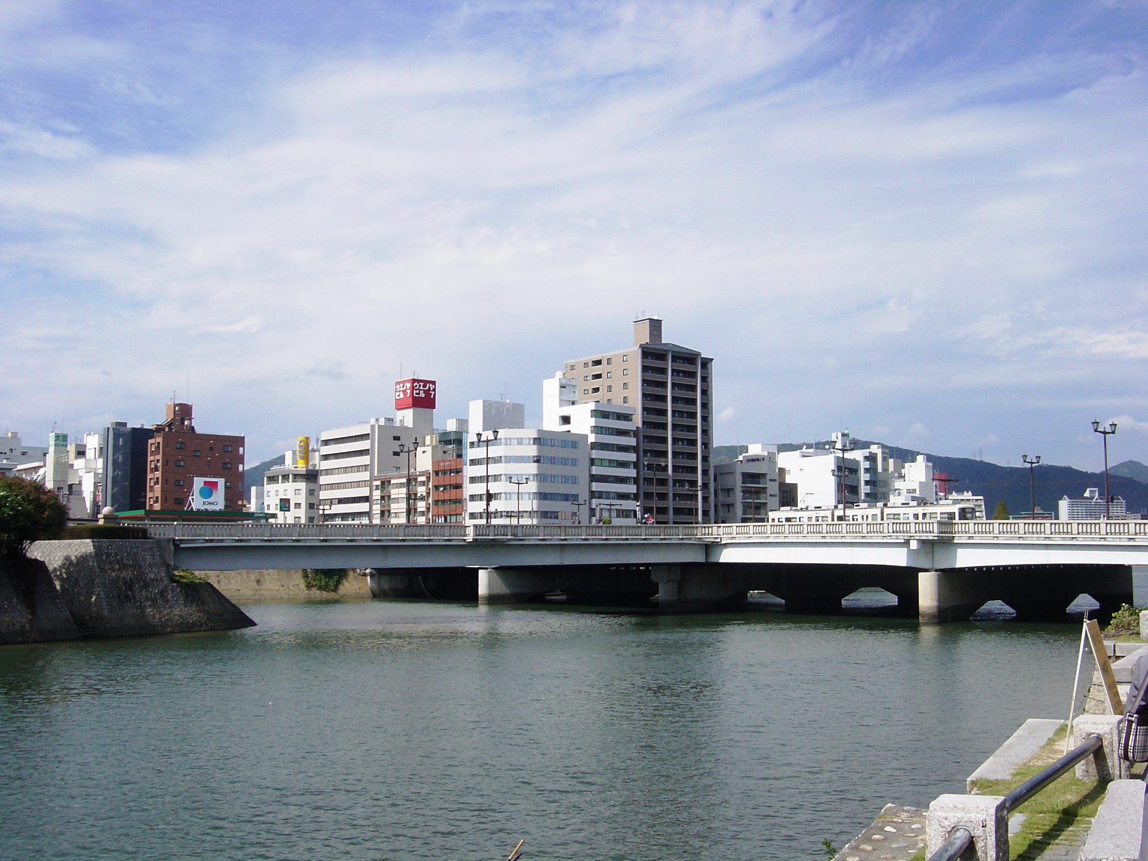 Aioi Bridge, Naka-ku, Hiroshima, Japan